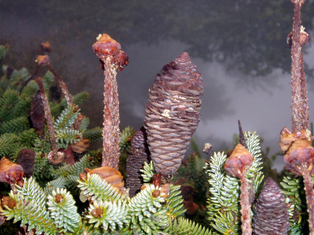 Abies pinsapo cone. Sierra de las Nieves, Andalucía, España.